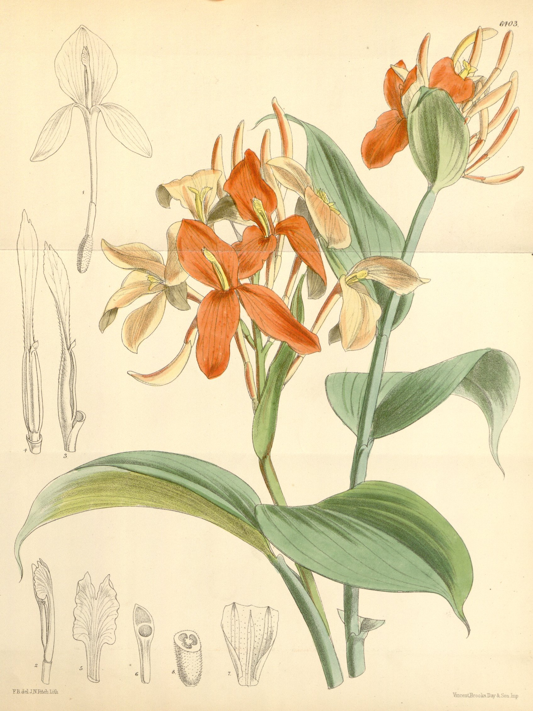 Burbidgea nitida, which is described by Sir Joseph Dalton Hooker in the source thus: "This very beautiful plant is the type of an entirely new genus ... . Mr. F.W. Burbidge [Frederick William Burbidge (1847–1905), British explorer], who discovered it when travelling in Borneo, for Messrs. Veitch, informs me that it grows in shady forests of the Murut district in N.W. Borneo, between the Lawas and Trusan rivers, at an altitude of 1,000 to 1,500 feet ..."